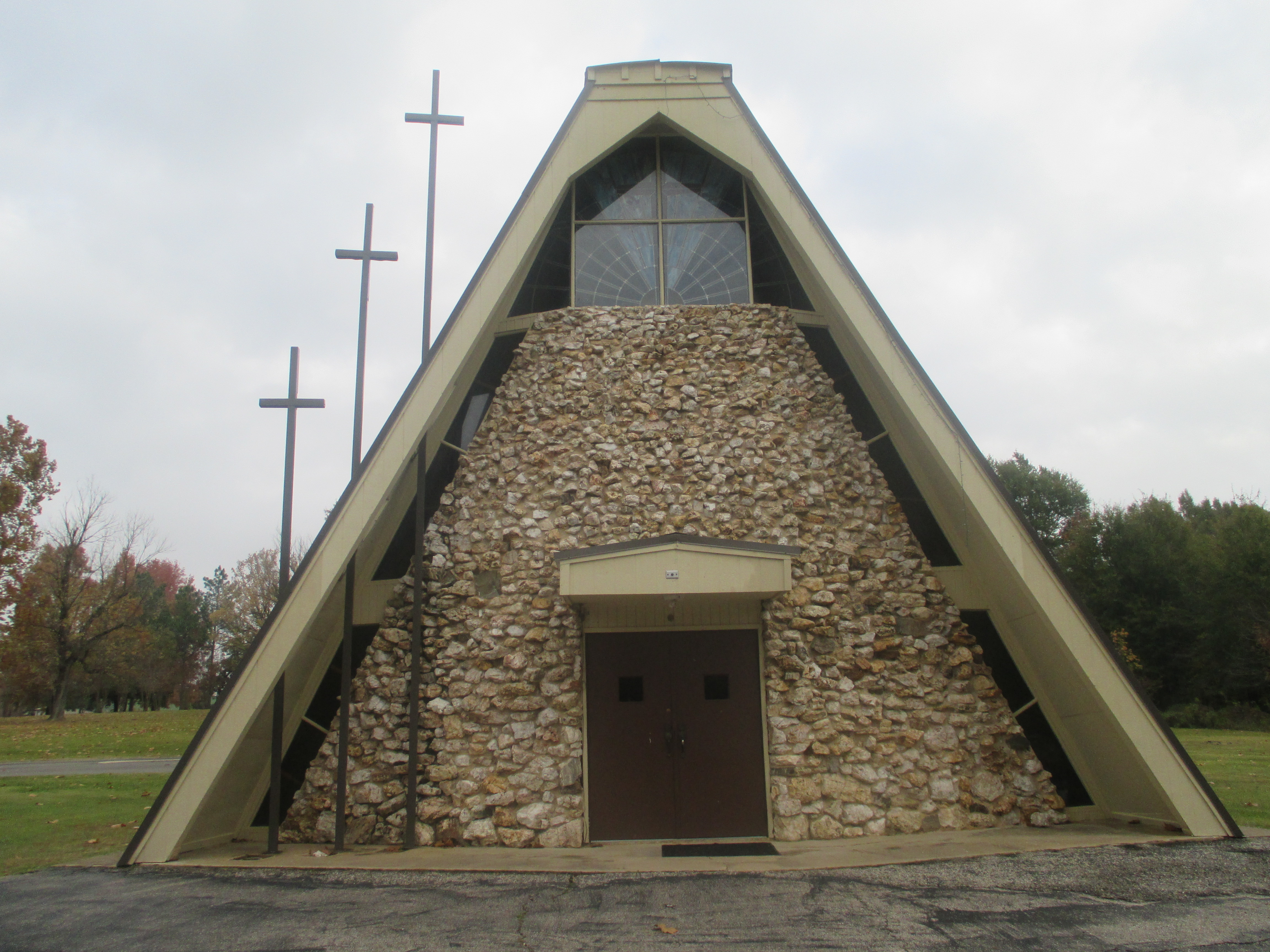 I took photo of Tom Baptist Church in Tom, OK, with Canon camera.